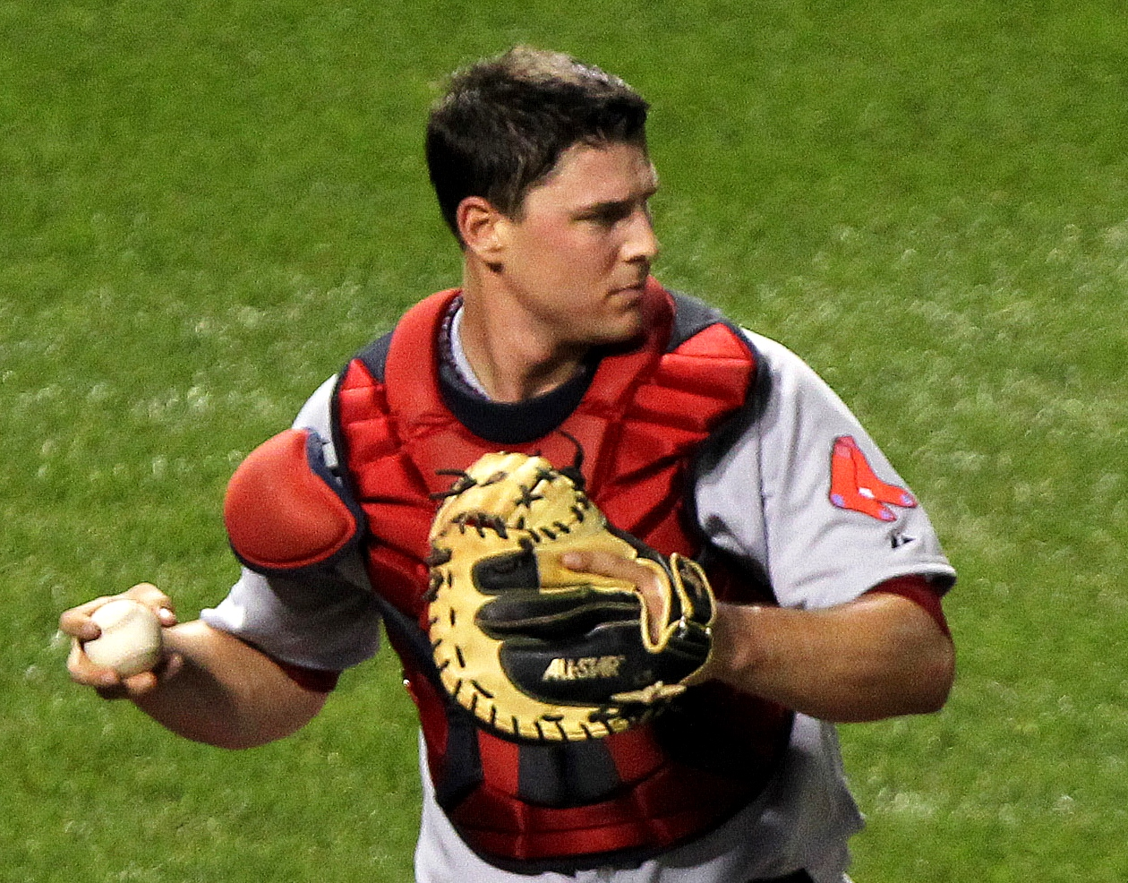 Ryan Lavarnway read to throw